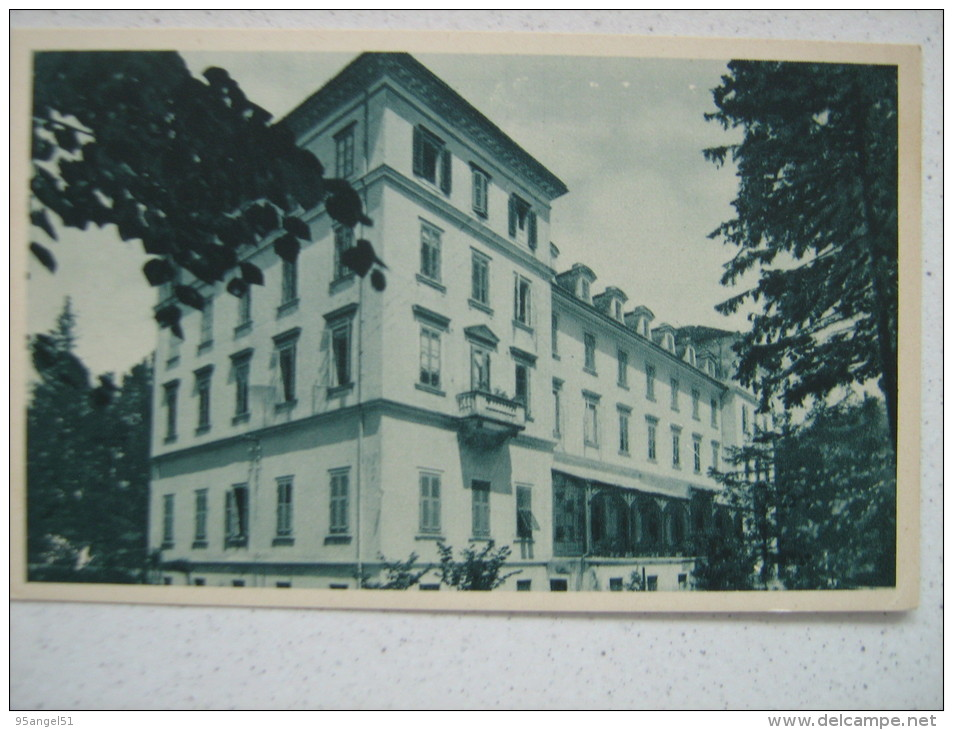 ex Adelsbergerhof hotel at Postojna, Slovenia